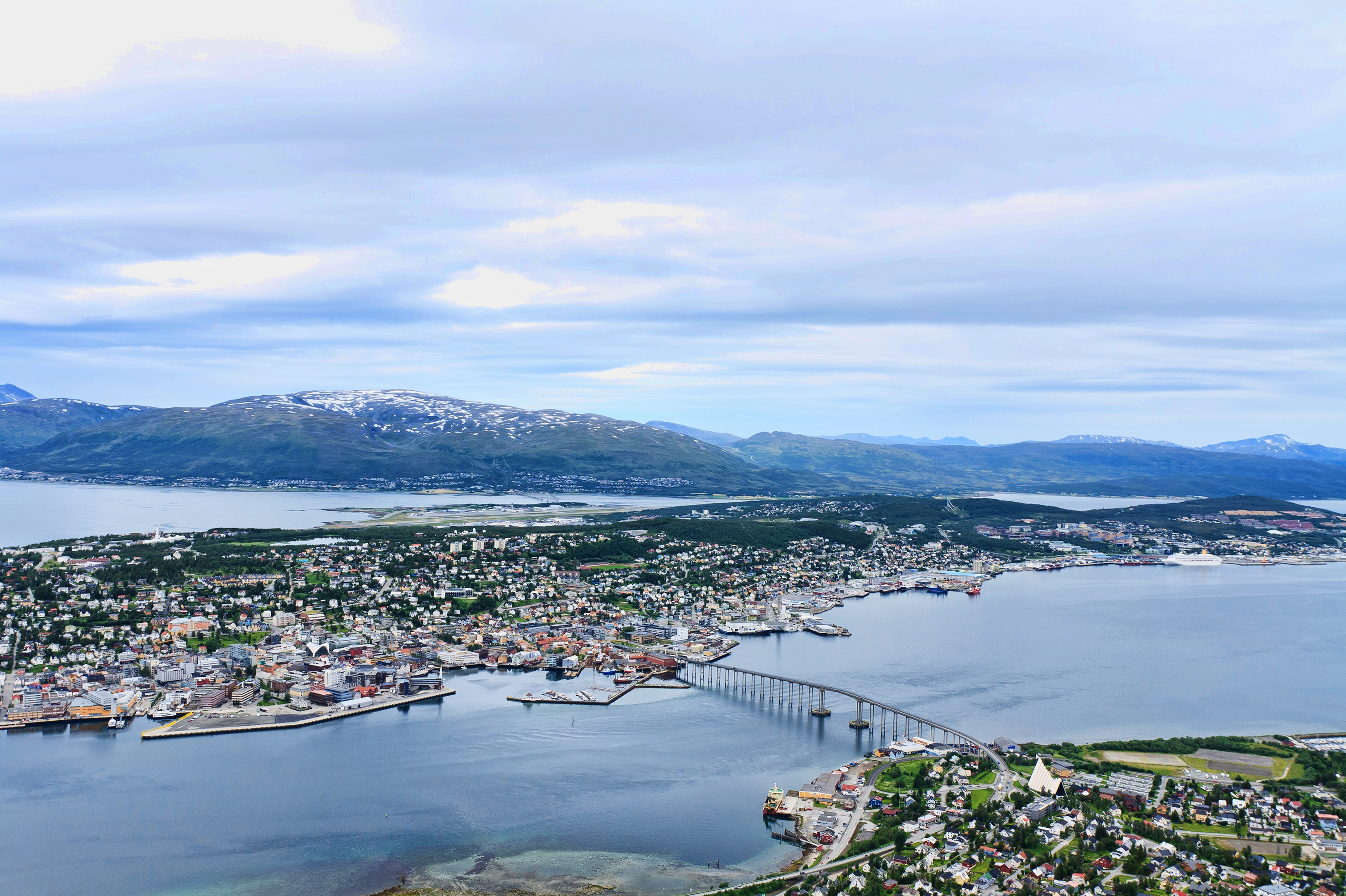 A summer view from the cable car. This image may be downloaded for commercial and non-commercial use. Please credit the photographer. --- Bildet kan fritt lastes ned. Vennligst krediter fotograf. Foto / Photo Credit: Eva Meyer Hanssen